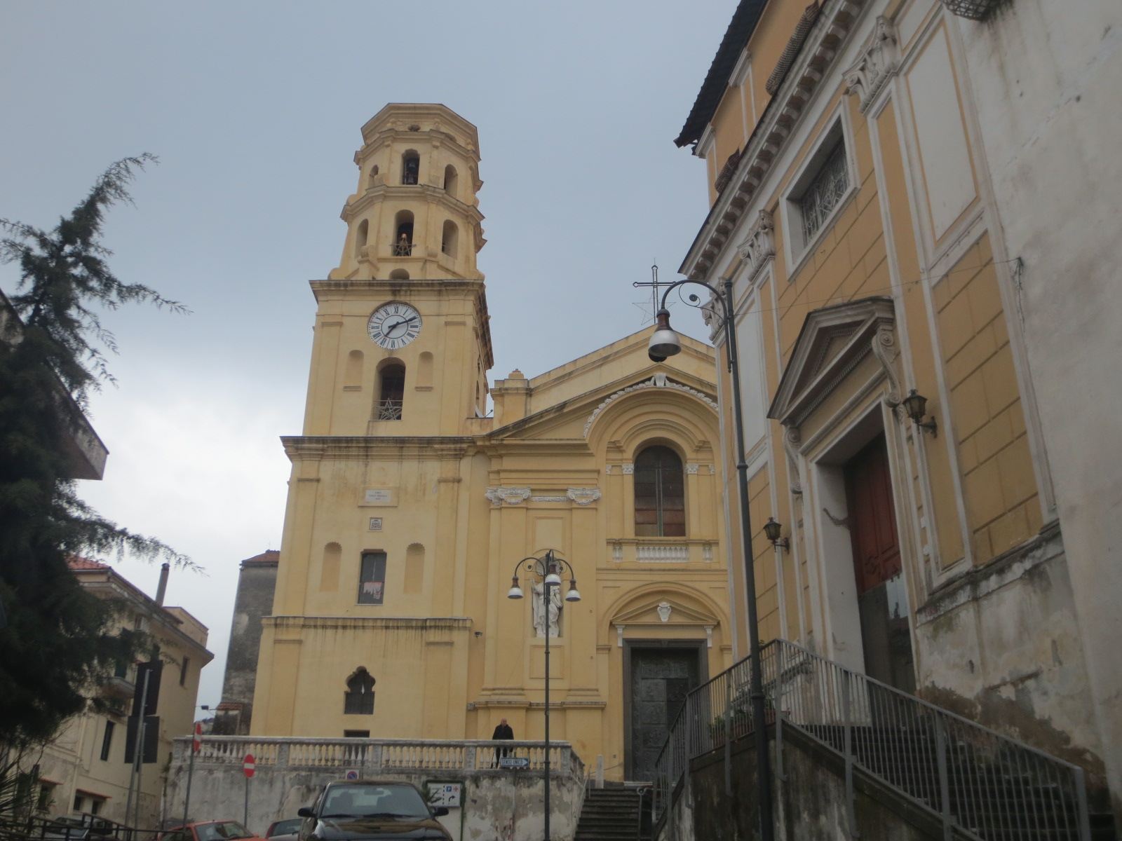 Santuario di Sant'Anna con il Monastero del Santissimo Rosario.